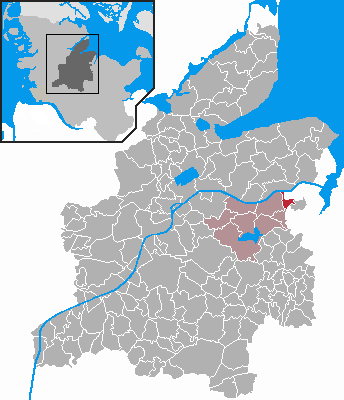 Locator maps of municipalities in Schleswig-Holstein - District Rendsburg-Eckernförde